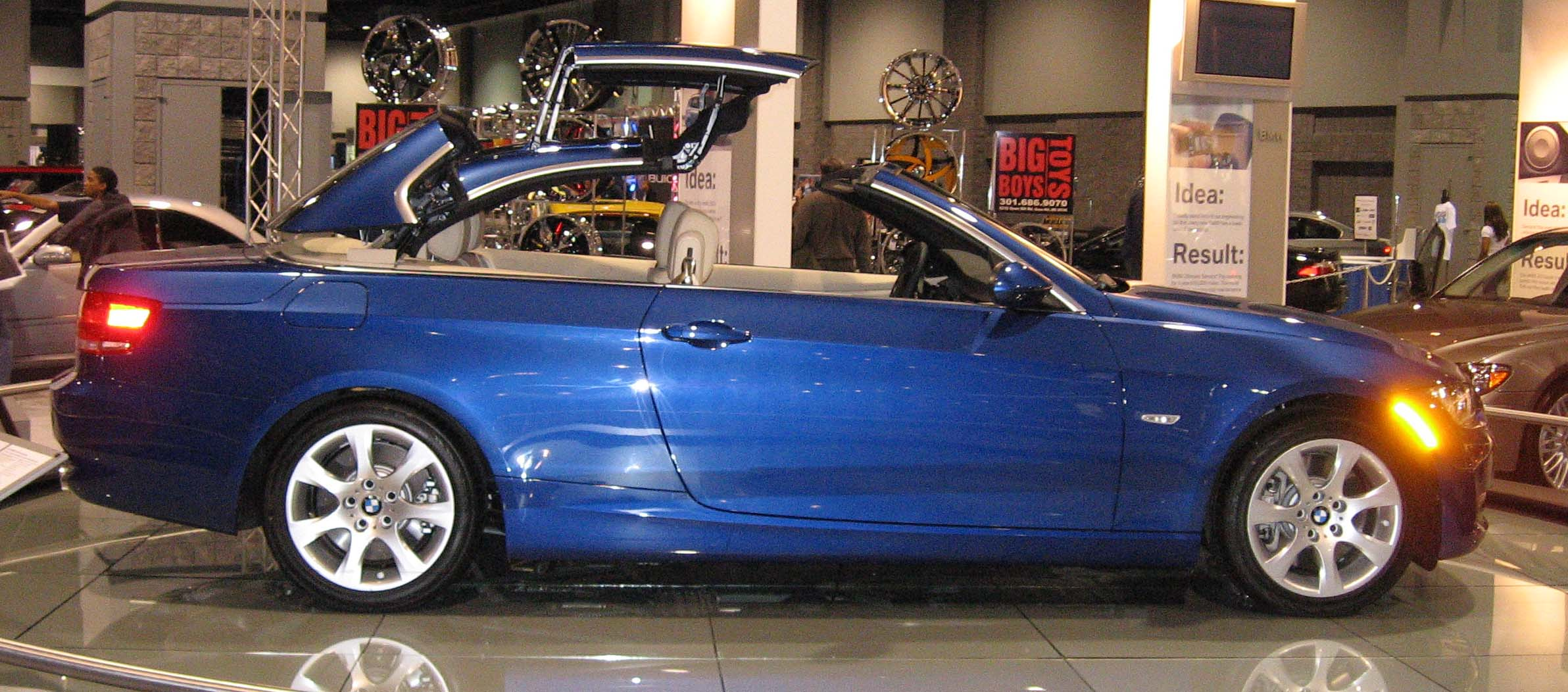 BMW 3-Series convertible photographed at the Washington Auto Show.